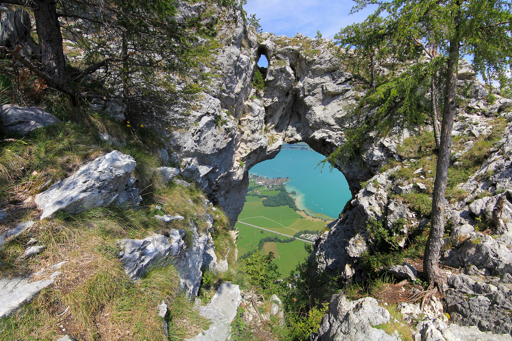 View trough the "Drachenloch" in the "Drachenwand" towards the Mondsee.